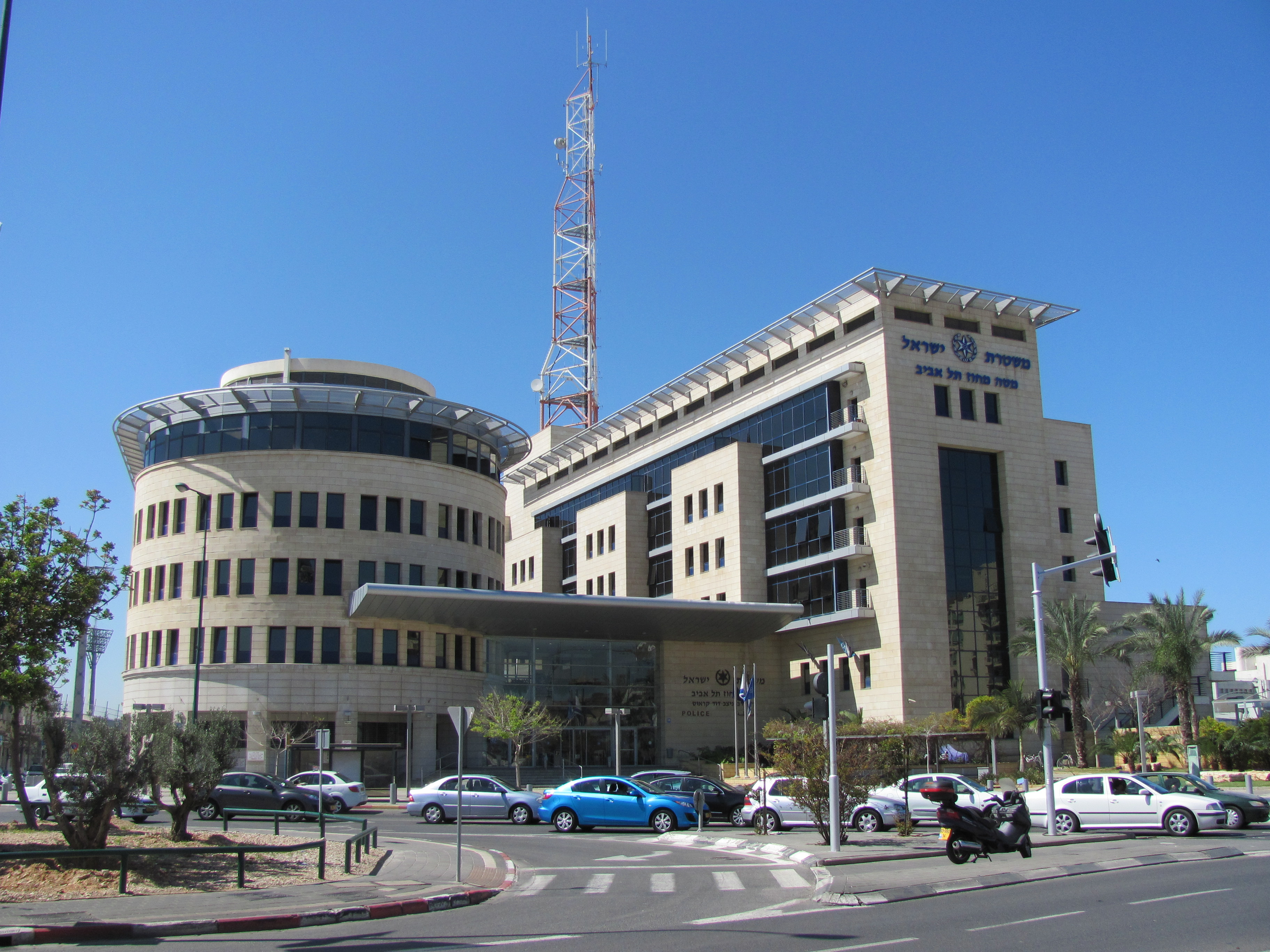 Tel Aviv district police headquarters.